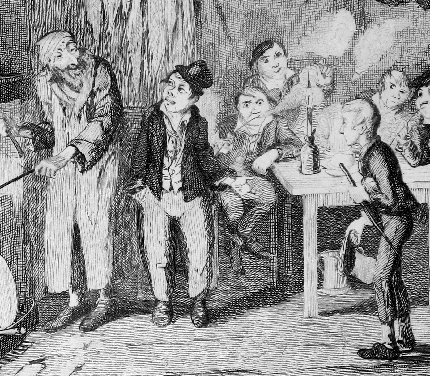 Detail of an original George Cruikshank engraving showing the Artful Dodger introducing Oliver to Fagin.